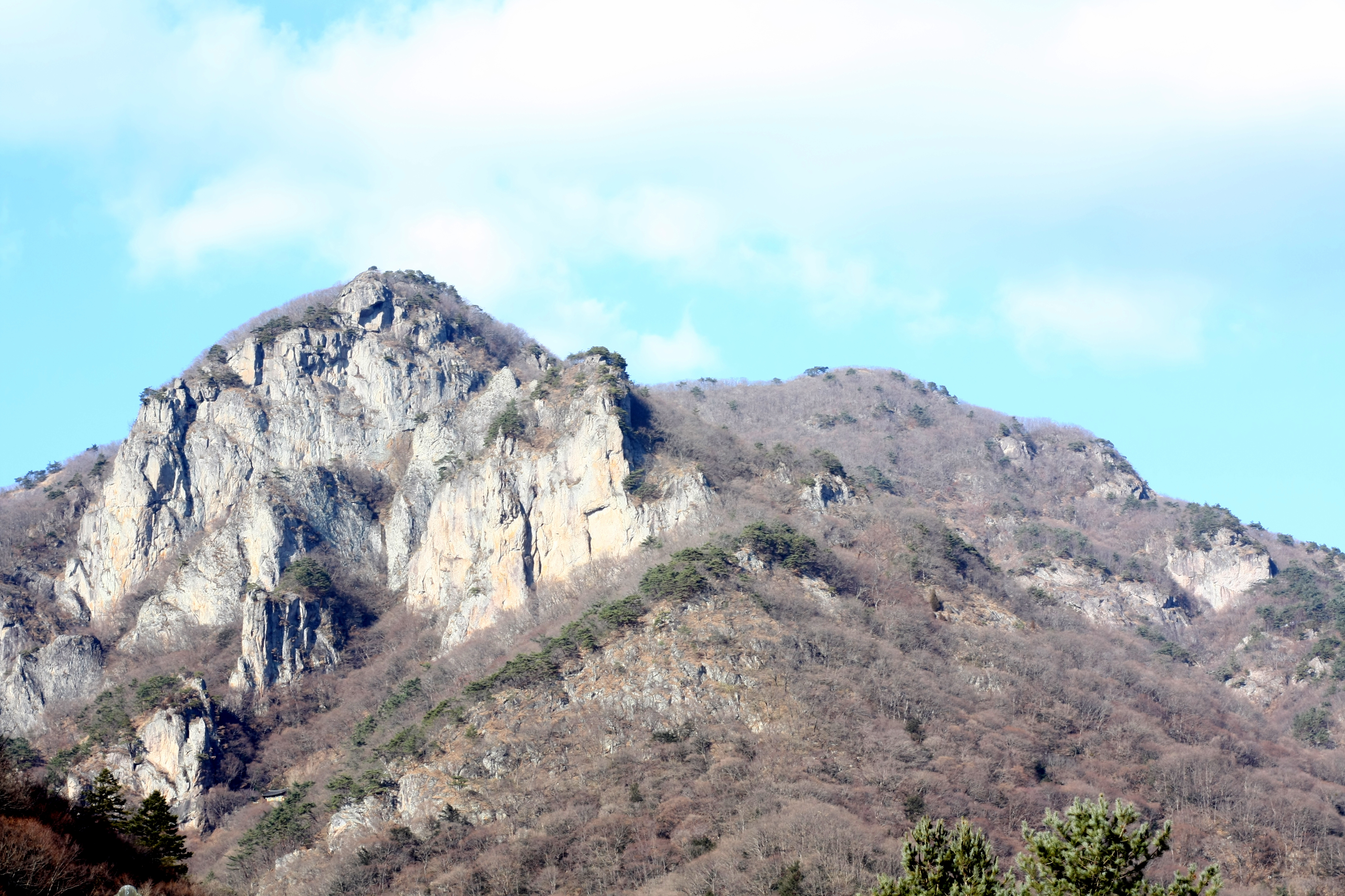 Baekyangsan in Jangseong, Korea